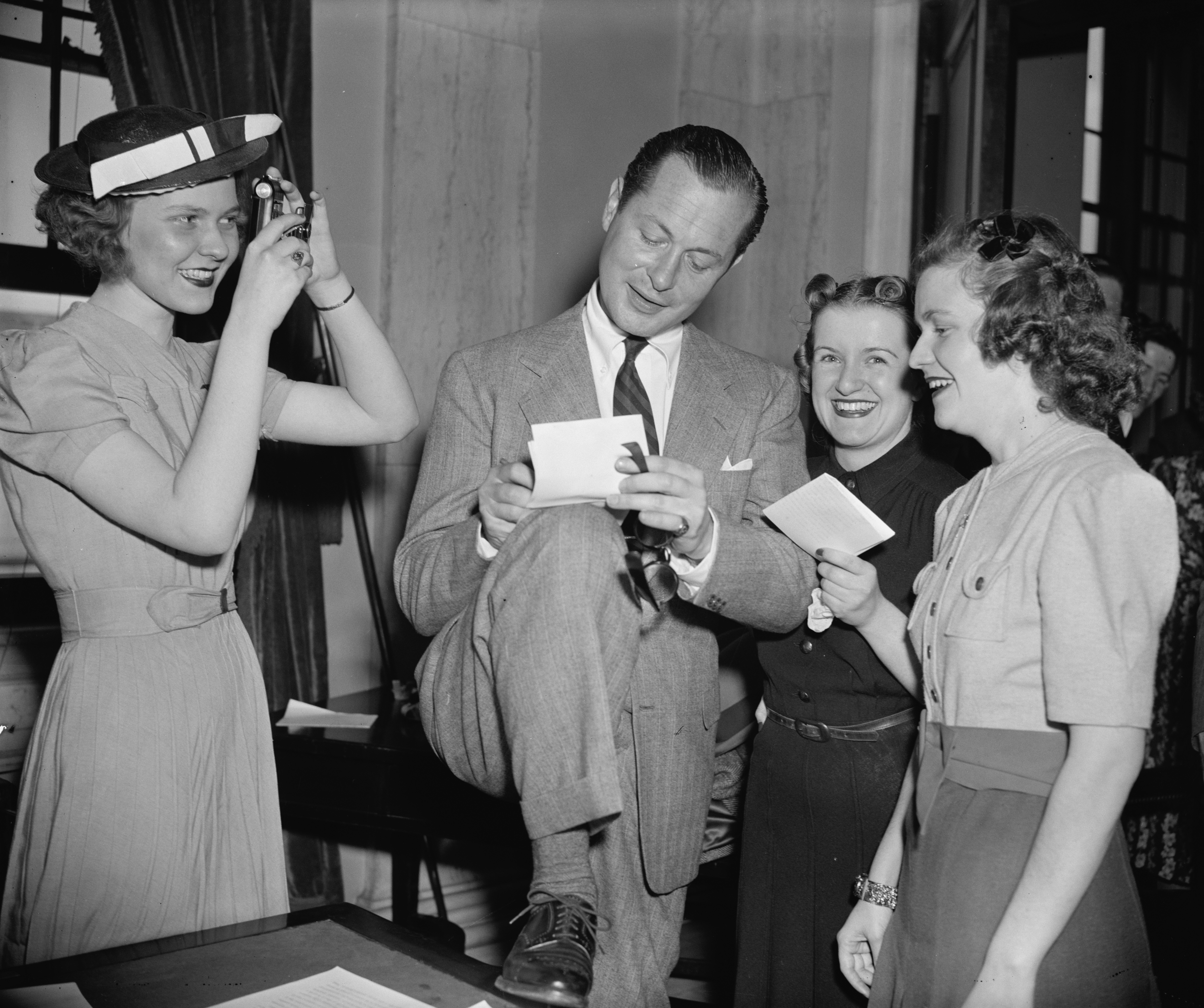 Screen idol besieged by autograph hunters in Capitol appearance. Washington, D.C., April 3. Arriving early at the Capitol today for an appearance before the Senate Interstate Commerce Committee, screen actor Robert was kept busy autographing until called to the stand. Here we see, left to right - Frances Aker, Robert Montgomery, Mary Fowler, and Catherine Bixler. 4-3-39